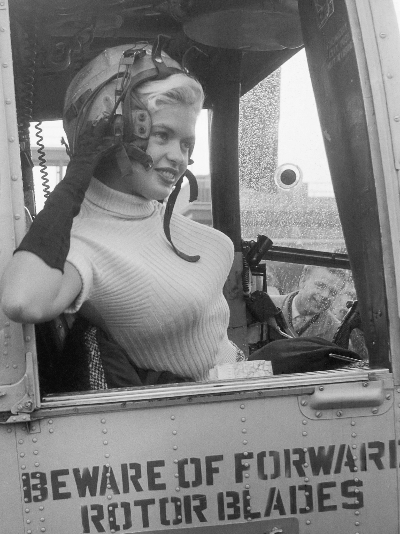 Jayne Mansfield departs by helicopter to Rotterdam